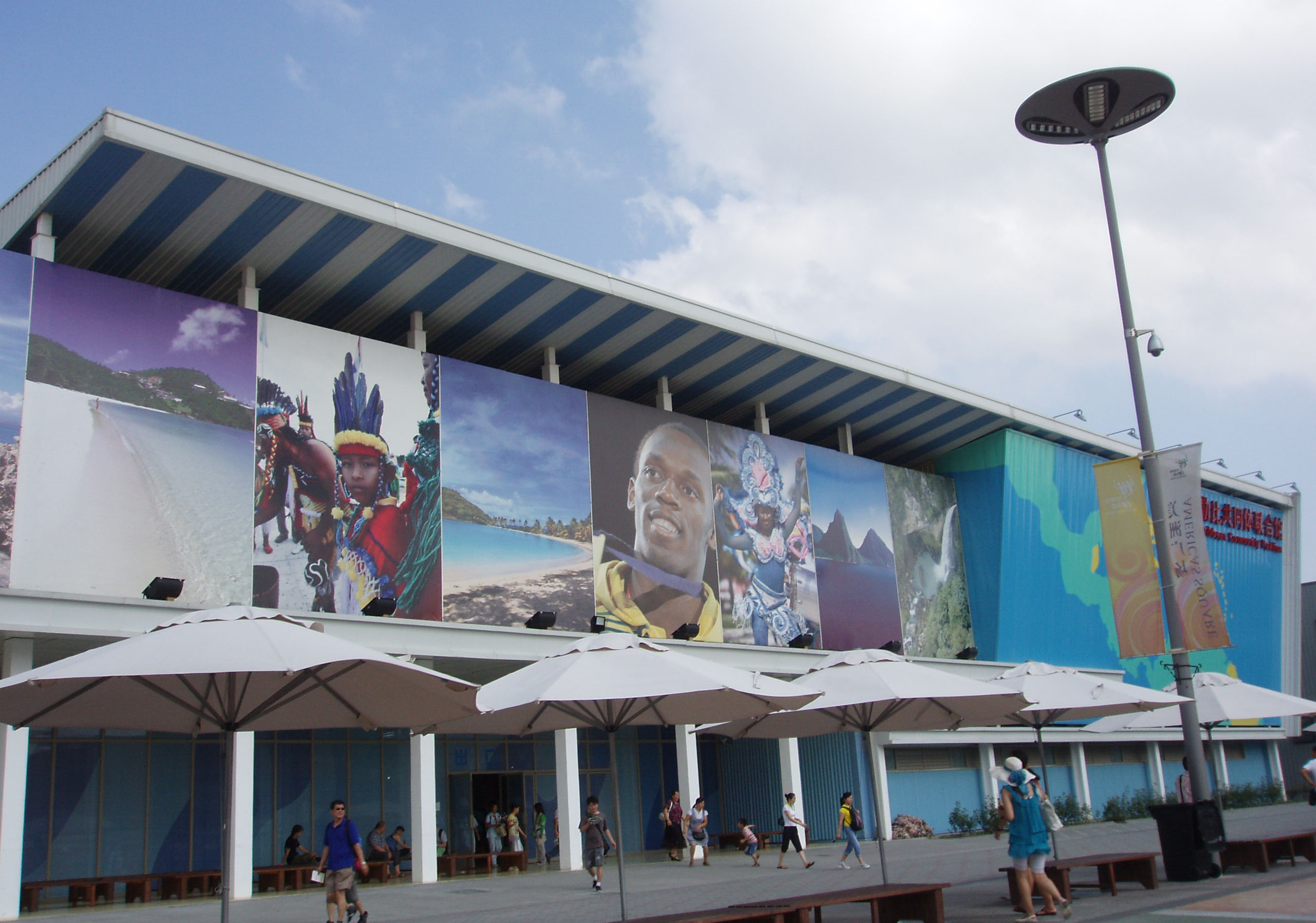 Caribbean Community Pavilion of Expo 2010,Shanghai.